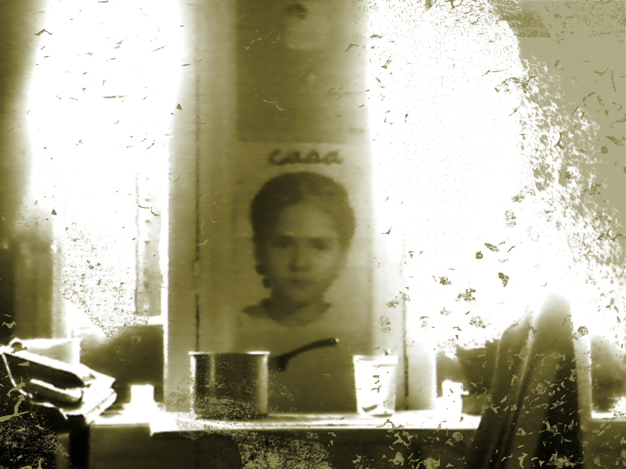 From Territorial Transfer, a project on women and their geographic, chronological and psychological mobility